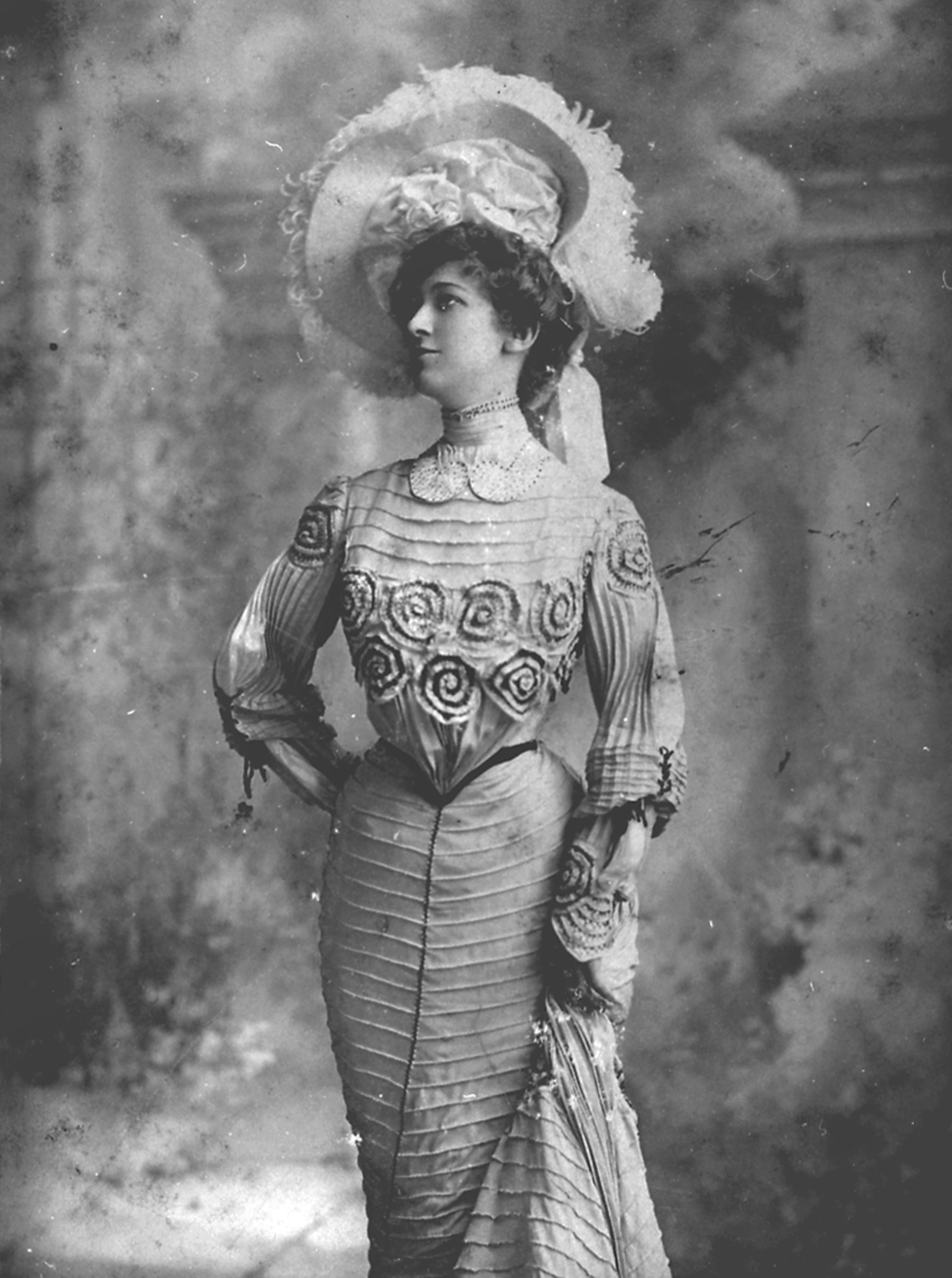 Former Congresswoman Willa McCord Blake Eslick of Tennessee.